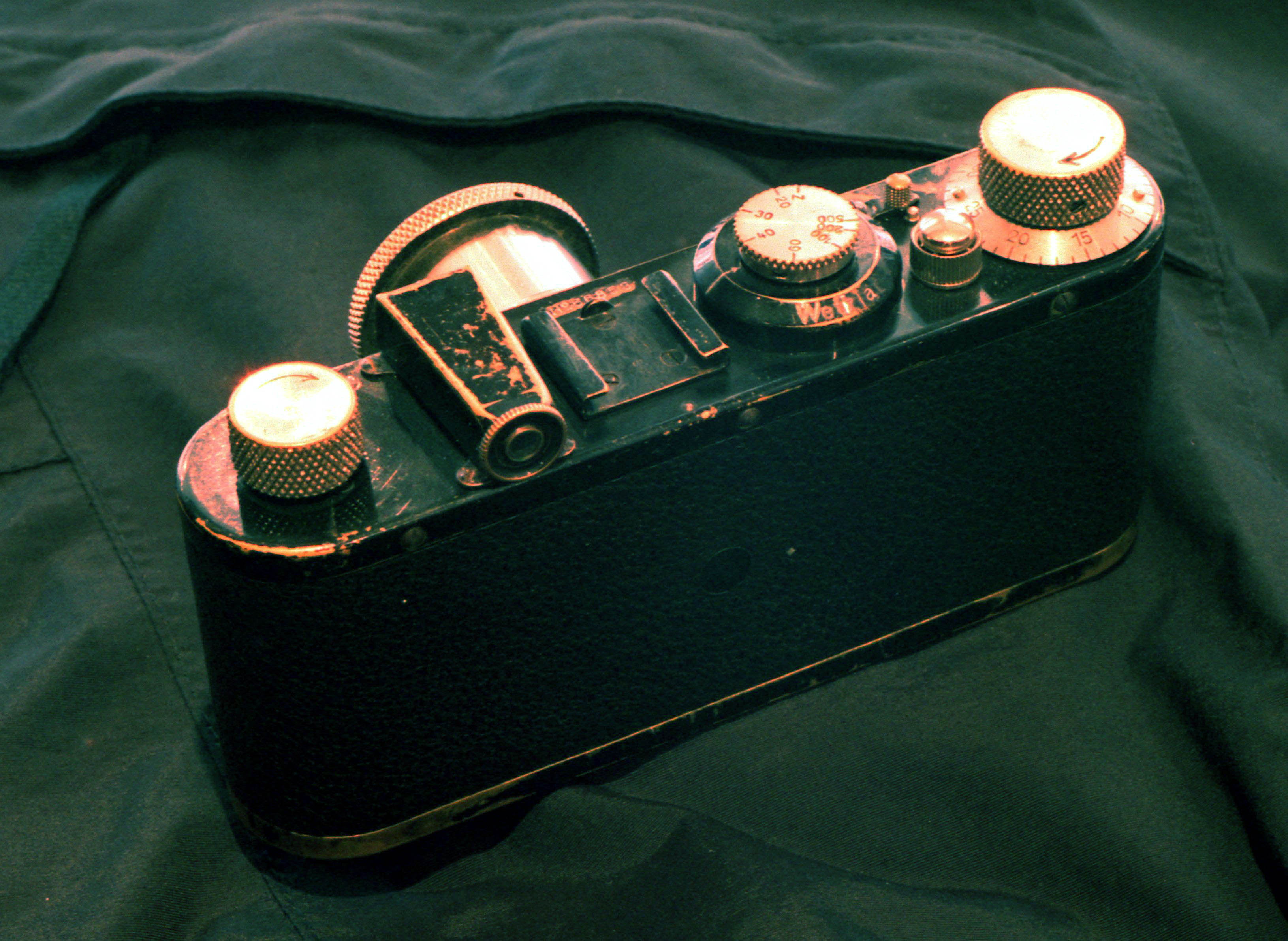 Leica 1. Thanks to Double Expo (88 Bvd Beaumarchais, 75011 Paris) for generously lending a tripode, a 60 mm macro lense, and the Leica 1. This photograph is analogical. Higher resolution versions of this file may be possible.